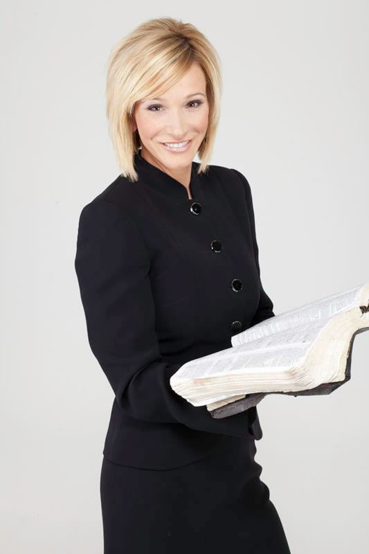 Picture of Paula White holding a Bible